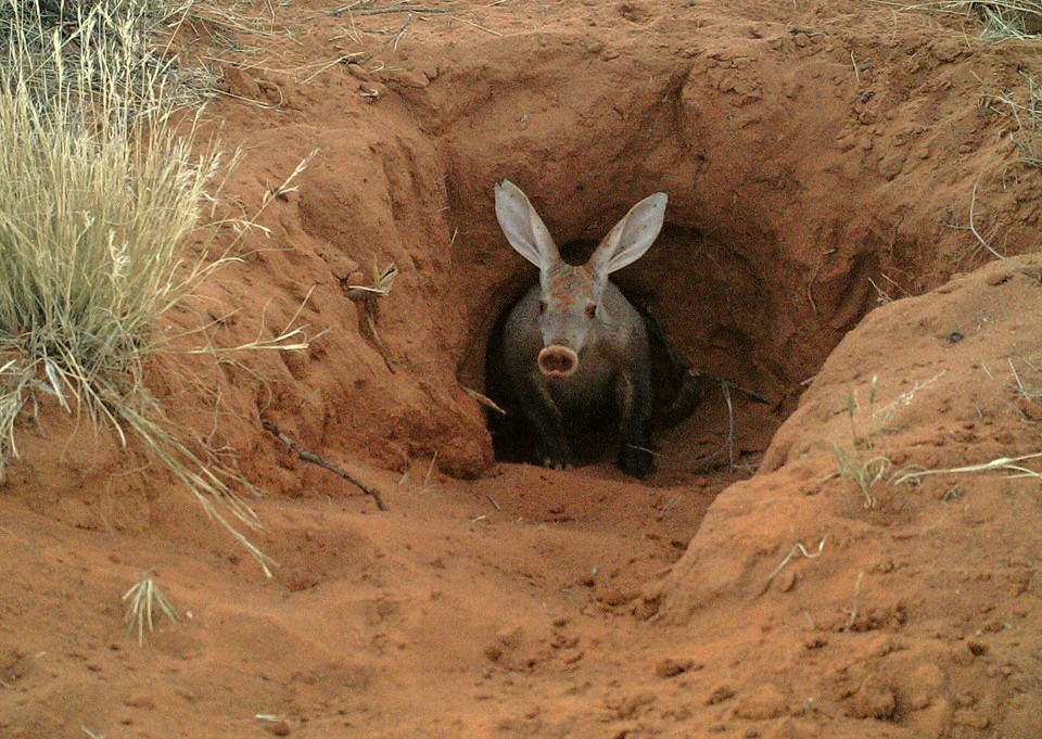 Aardvark in burrow at SanWild